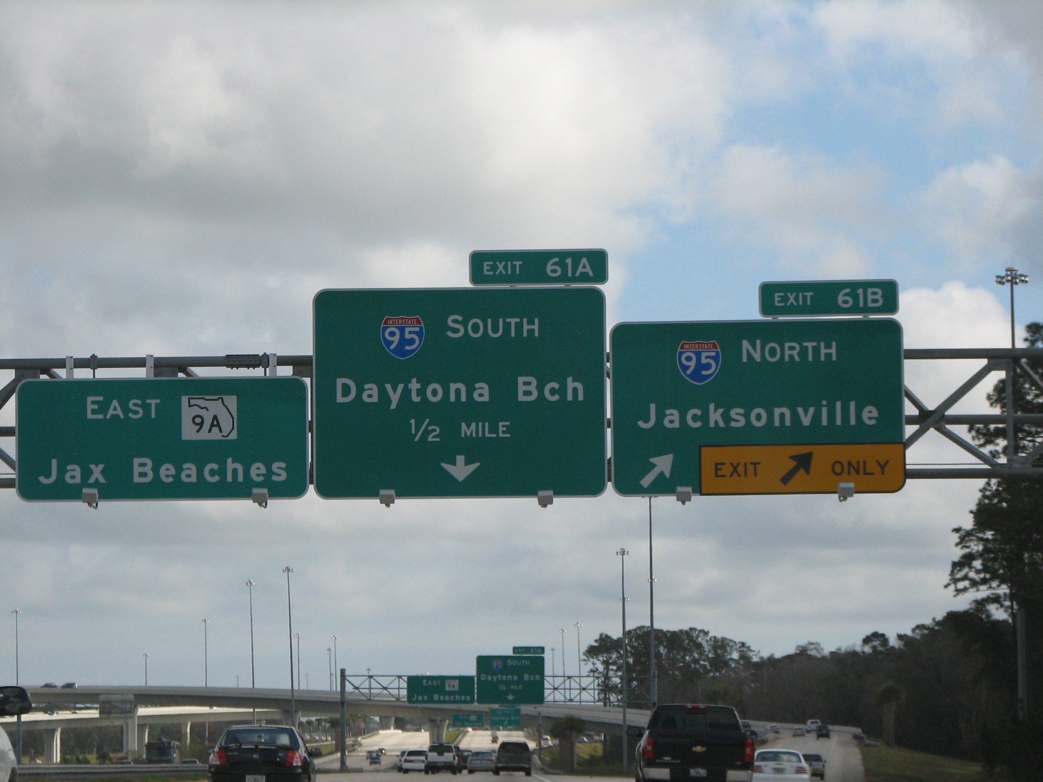 Signs for the north/south interchange with Interstate 95 while on Interstate 295 South Loop (east) in Florida.